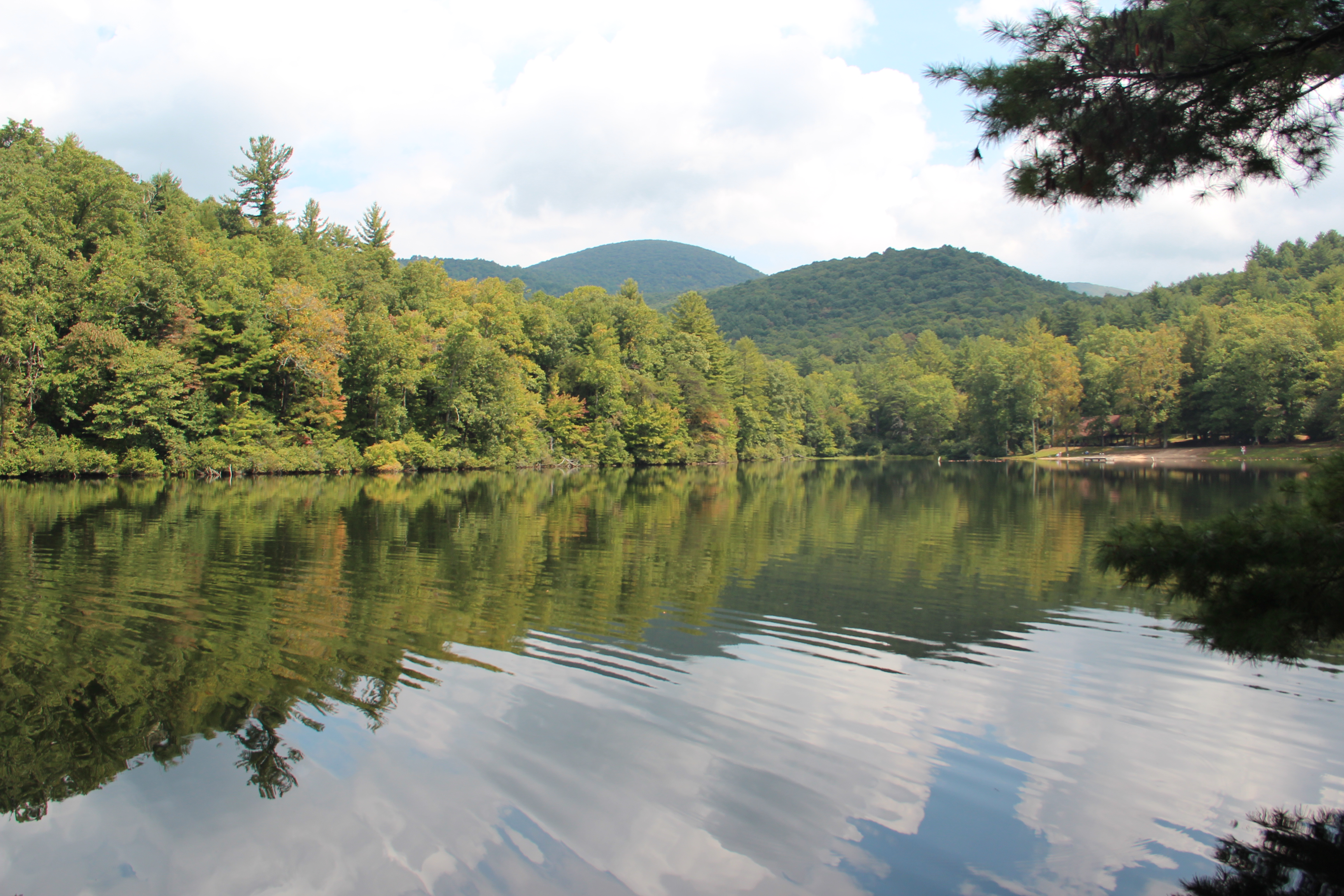 Lake Winfield Scott in September, 2015